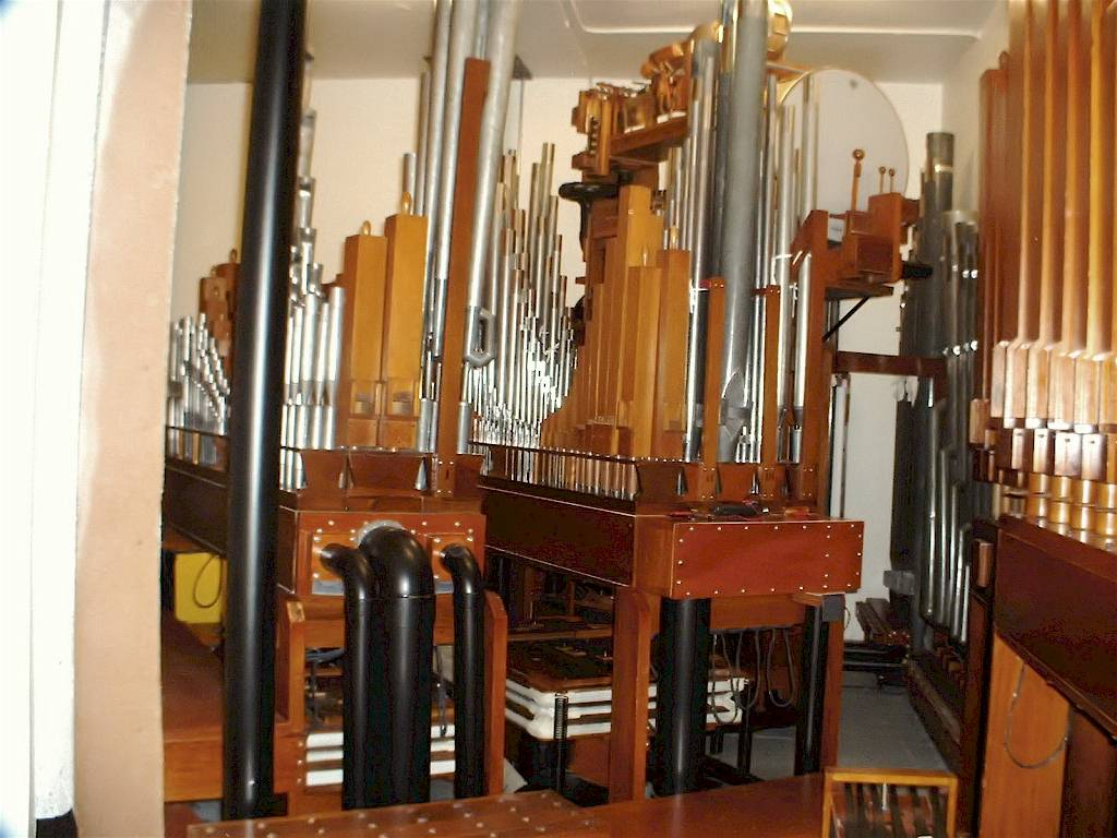 View of pipes of the Wurlitzer theater pipe organ at the Meyer Theatre, Green Bay, WI.